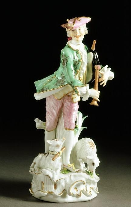 Figure, about 1750, Meissen porcelain factory V&A Museum no. C.147-1931 Techniques - Hard-paste porcelain, painted in enamels and gilt Artist/designer - Meissen porcelain factory, Johann Joachim Kändler born 15/06/1706 - died 17/05/1775 (modeller) Place - Meissen, Germany Dimensions - Height 25.4 cm, Width 13.85 cm (approx.) Object Type - This German porcelain figure was made to accompany a shepherdess. Idealised representations of shepherds and shepherdesses, often fashionably dressed, were very popular in mid-18th century Europe. In Britain such figures might have been displayed on a domestic furnishing, or, as in Germany, they might have been set out on a dining table during the dessert course of a grand meal. Meissen was the first factory to make porcelain figures for this purpose. They gradually replaced the sugar paste and wax figures that had been made from medieval times for royal wedding feasts. These were originally made to celebrate political allegiances. By the 16th century, allegorical themes had been introduced, and by the 18th century many were entirely decorative. Trading - Continental porcelain could not be legally imported for sale in Britain until 1775, unless it was stated to be for personal use, not for resale. Despite this, in the 1750s large quantities of Meissen porcelain were sold in London china shops. Much of this was imported under the pretence that it was for personal use, but some was smuggled in. Meissen porcelain was greatly admired in mid-18th century Britain, and the English porcelain factories made many close copies of Meissen figures and wares.